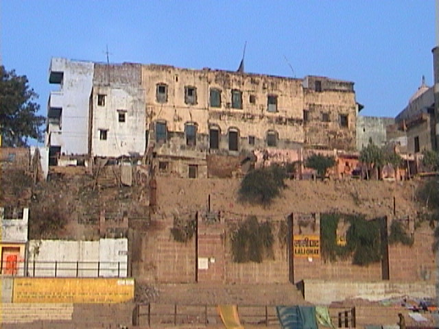 See Varanasi Development Cooperation Handbook/Stories/Responsible Development - Varanasi The Varanasi Heritage Dossier Kautilya Society Play media Vrinda Dar - How we got involved in heritage protection of Varanasi